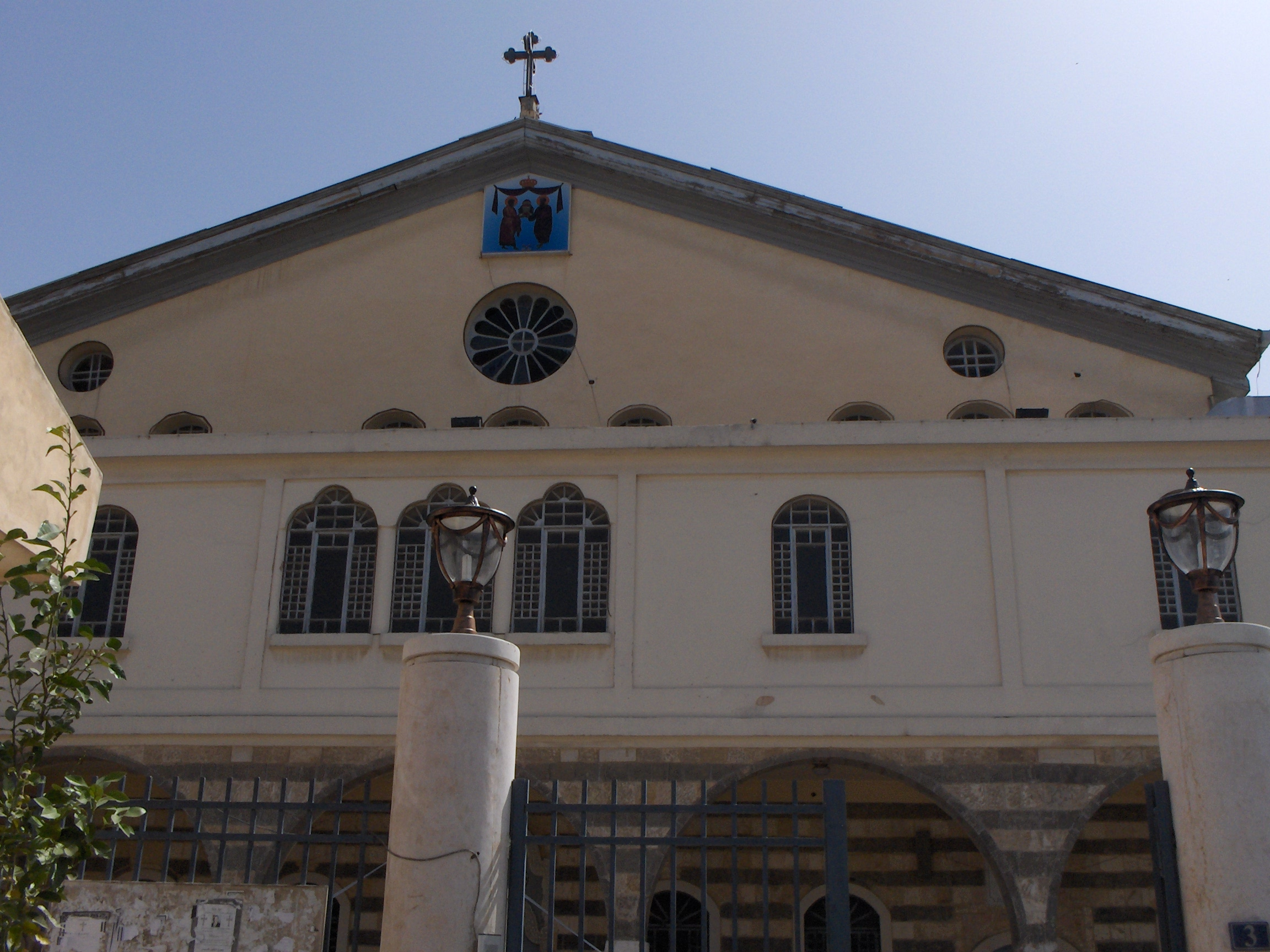 Mariamite Cathedral of Damascus in Syria, the seat of the Greek Orthodox Church of Antioch